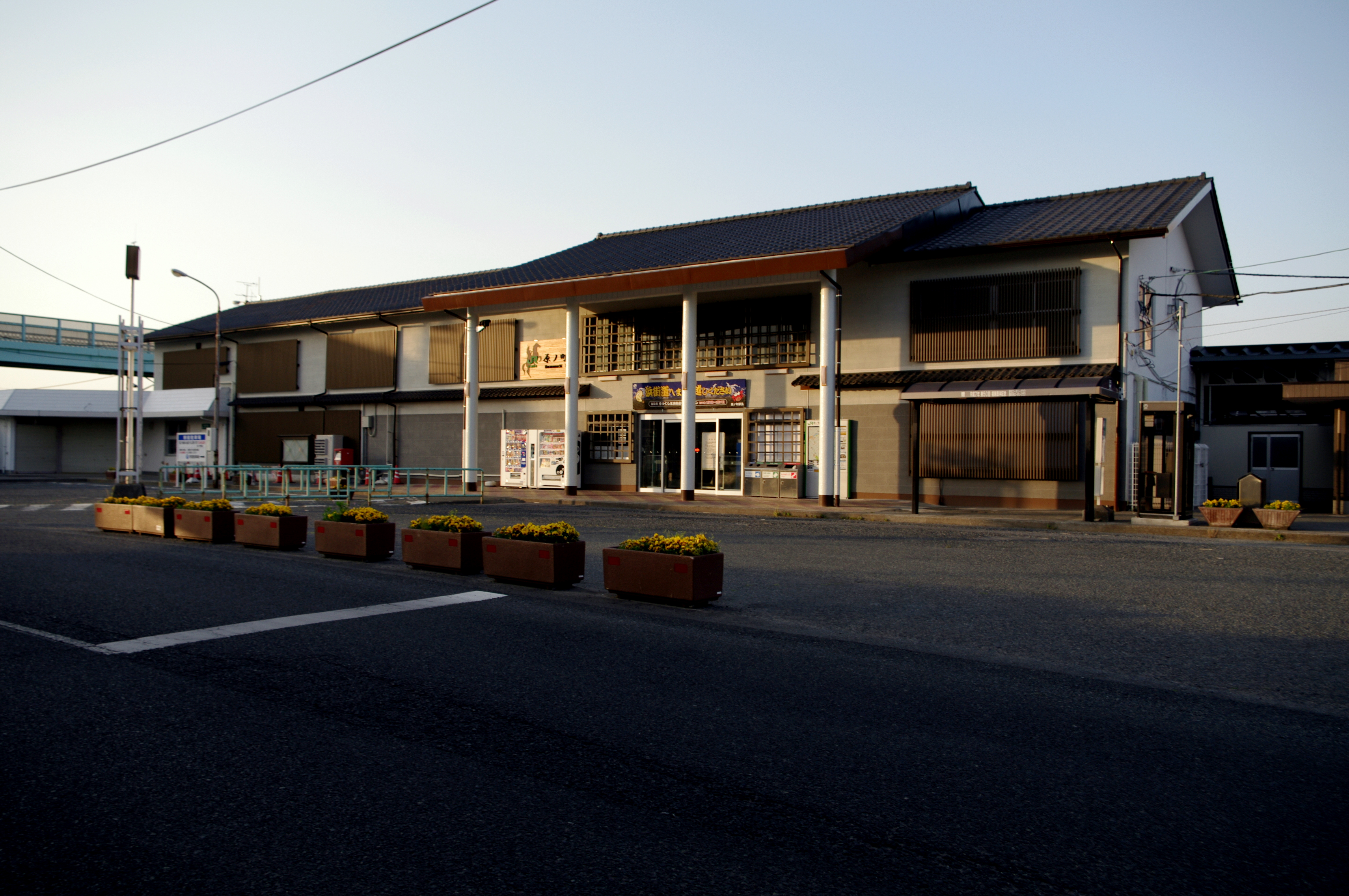 Haranomachi Station, Photographed on May 15